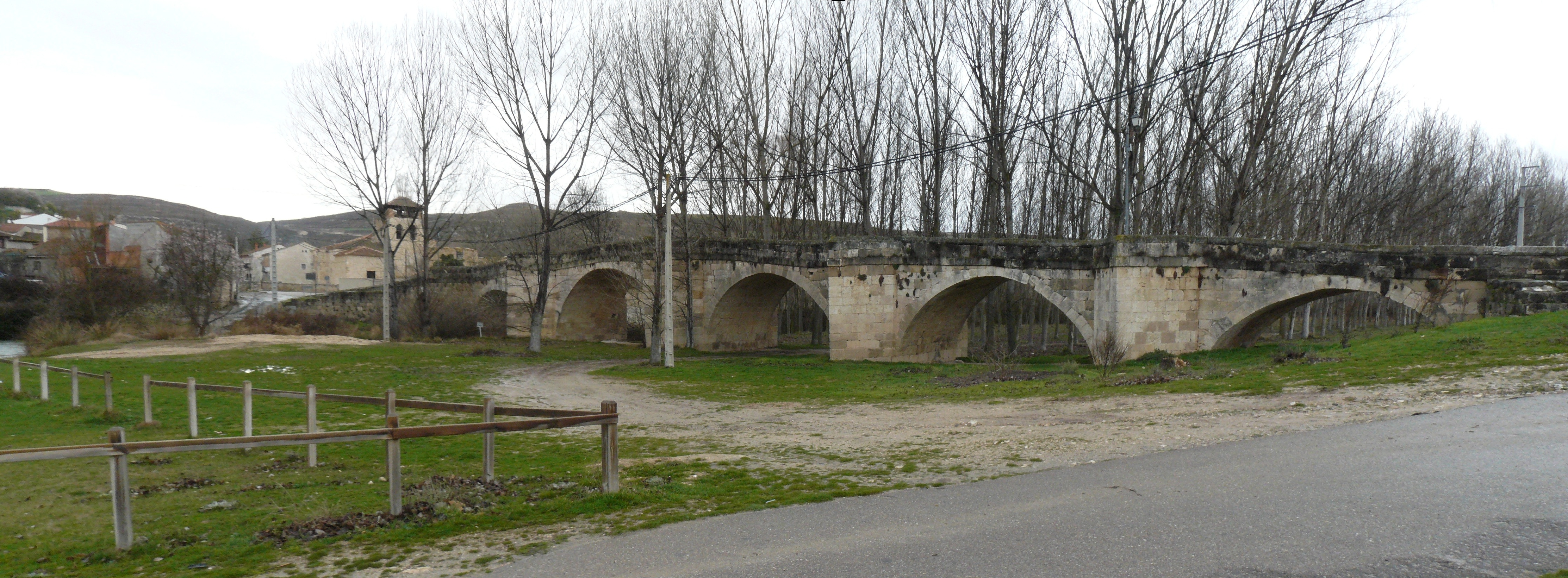 18th century bridge of medieval origin, Fuentidueña (province of Segovia, Spain).